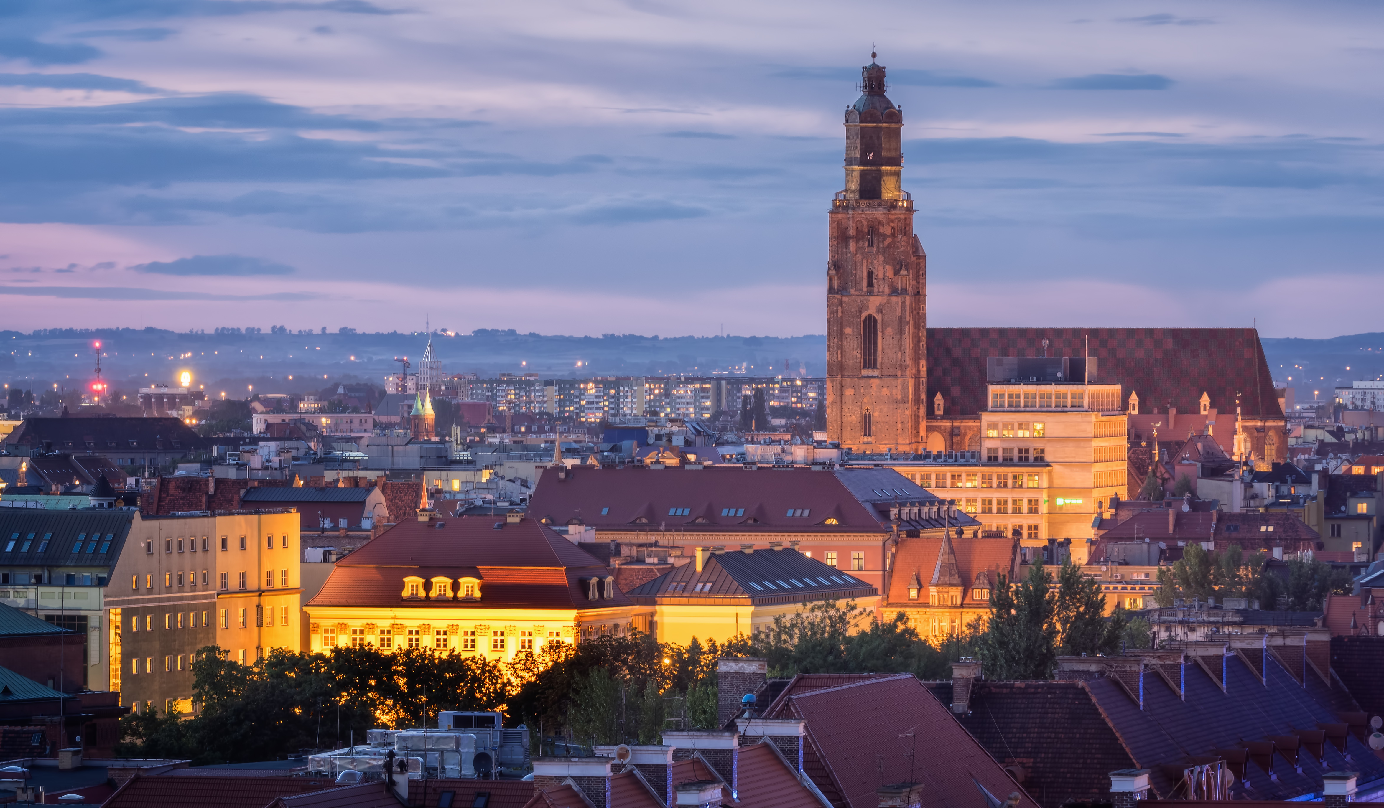 Saint Elisabeth of Hungary church in Wrocław, 1486